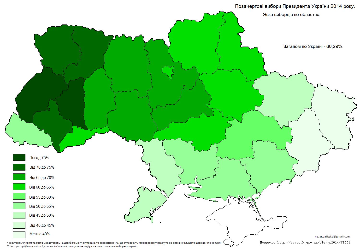 Turnout for 2014 Ukrainian presidential election.